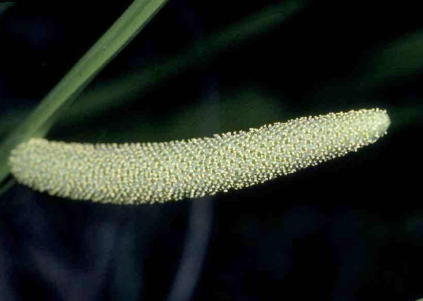 Acorus calamus (Sweet Flag) - spadix Downloaded from: This image is not copyrighted and may be freely used for any purpose. Please credit the artist, original publication if applicable, and the USDA-NRCS PLANTS Database. The following format is suggested and will be appreciated: Robert H. Mohlenbrock @ USDA-NRCS PLANTS Database / USDA NRCS. 1995. Northeast wetland flora: Field office guide to plant species. Northeast National Technical Center, Chester, PA.